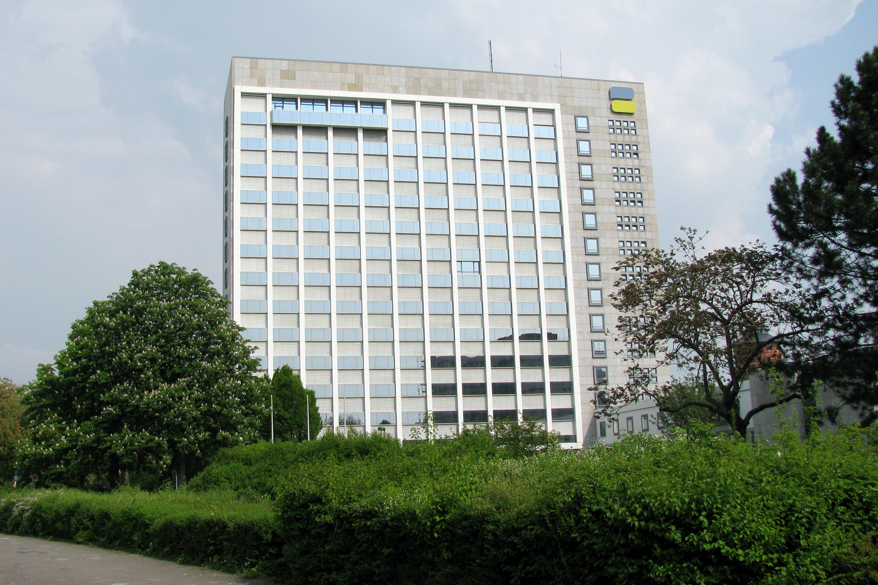 Speyer: Landesversicherungsanstalt (State Pension Office) Rheinland-Pfalz (Rhineland-Palatine) seen from the west